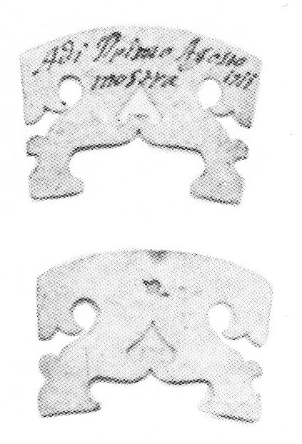 Models for violin briges made by Antonio Stradivari